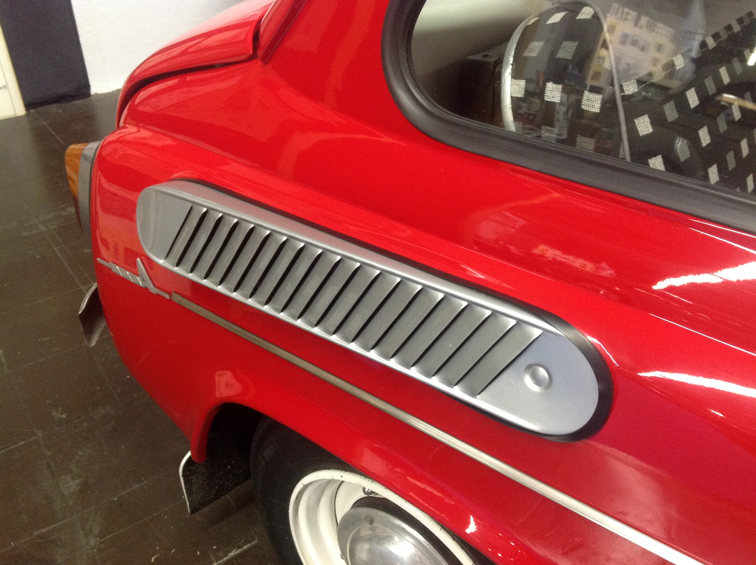 The first time I have ever seen this model in the metal. Rear-mounted air-cooled V4.